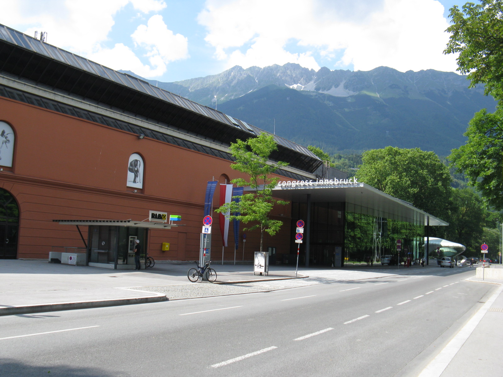 Congress Innsbruck, Rennweg entrance